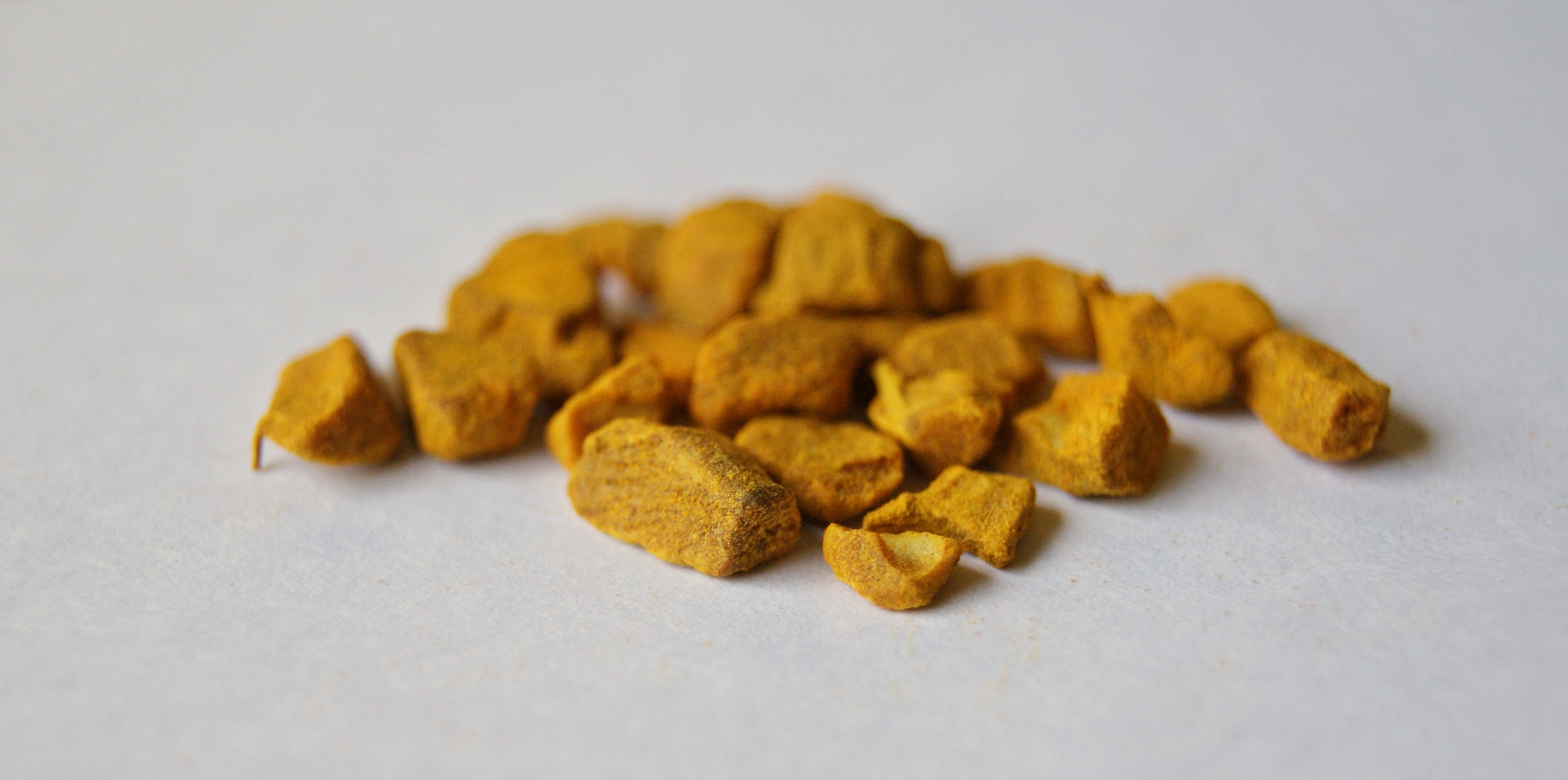 Rhizoma Curcumae javanicae; Curcuma xanthorrhiza (Roxb.)